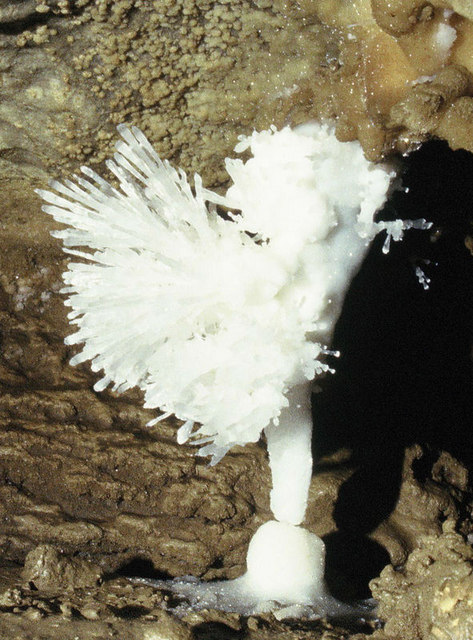 Darren Cilau Cave Llangattock The Ballerina.